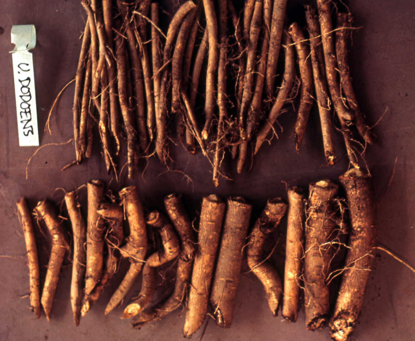 Root cuttings of Ulmus 'Dodoens' - Boskoop 1984.04.05.(photo: Mihailo Grbić)